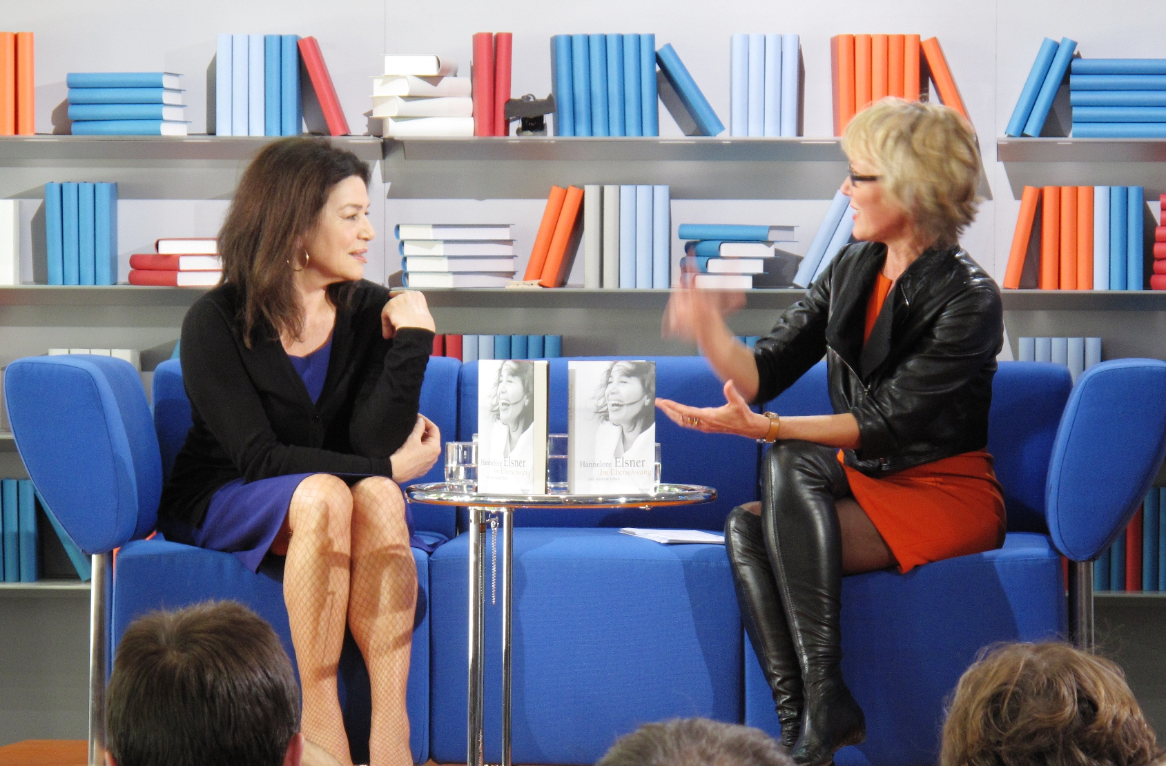 Frankfurt Book Fair 2011